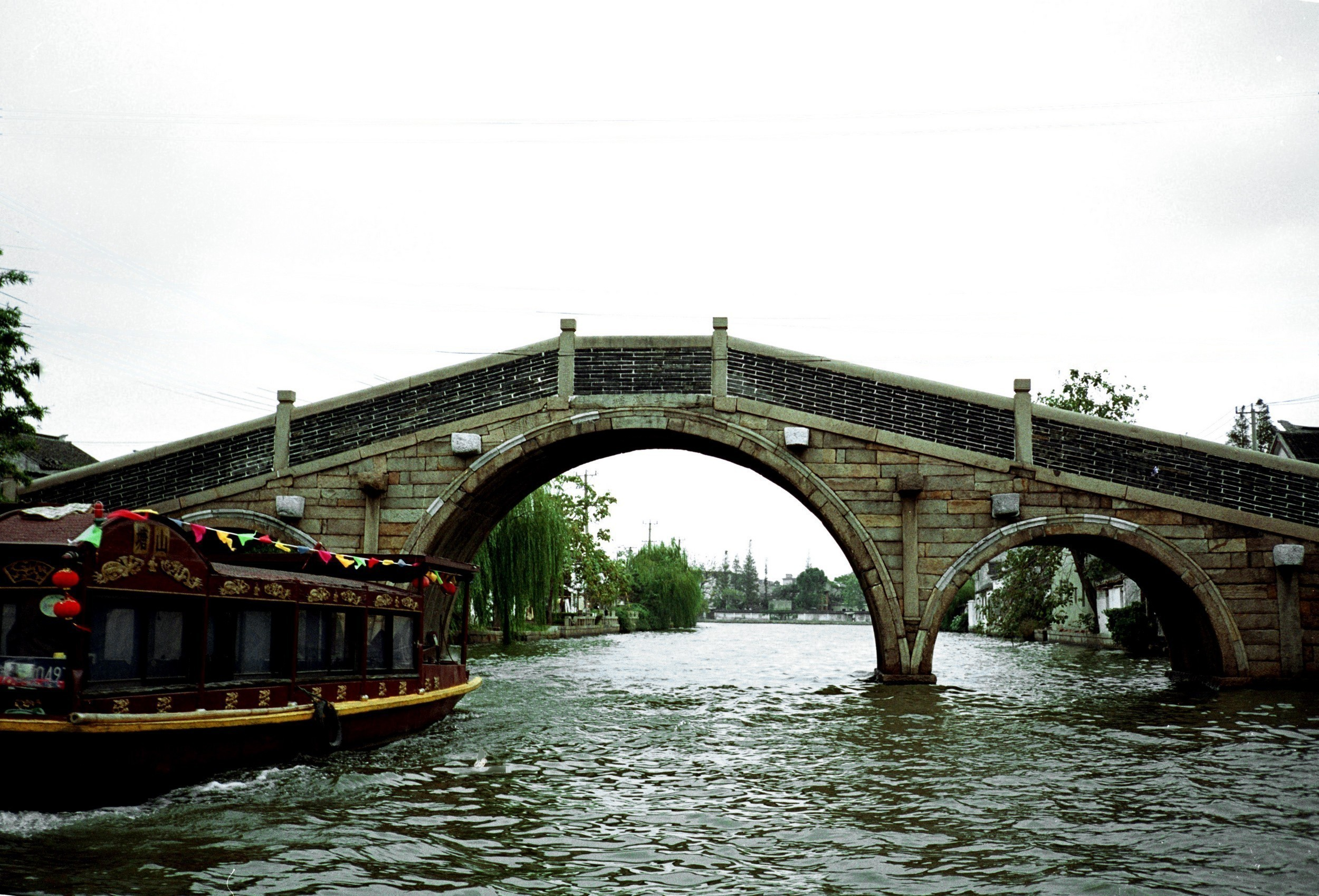 Stone arch bridge in Suzhou - China.